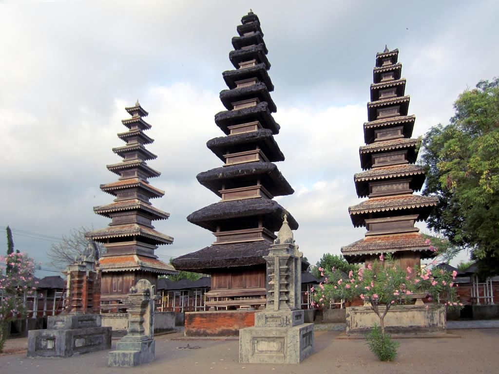 Pura Meru, the Red Temple, in Cakranegara, Lombok